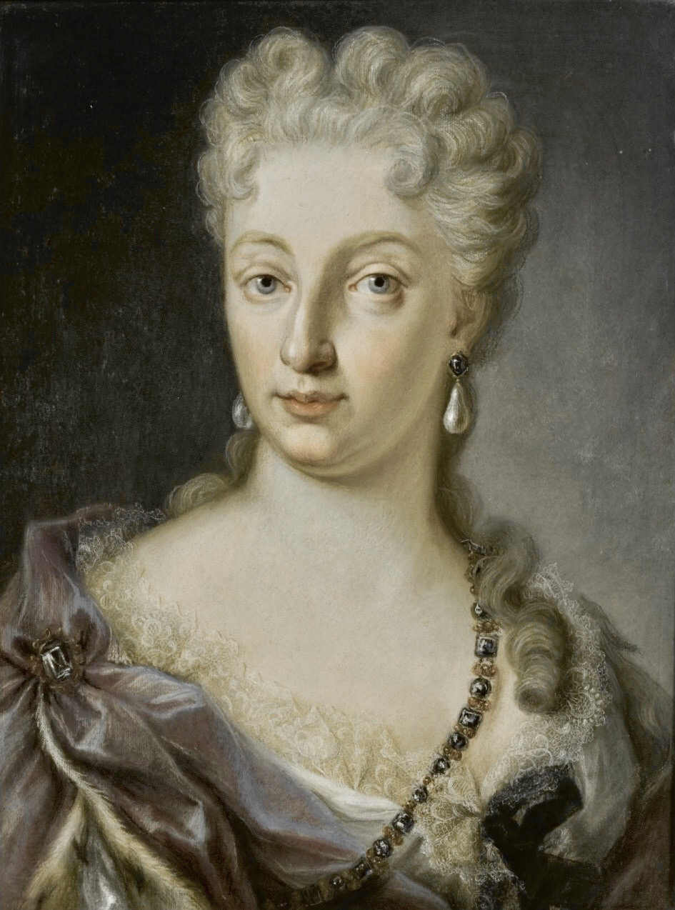 Violante Beatrice of Bavaria (1673-1731), Grand Princess of Tuscany at the age of 47